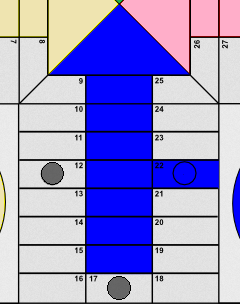 Blue tower parchis board